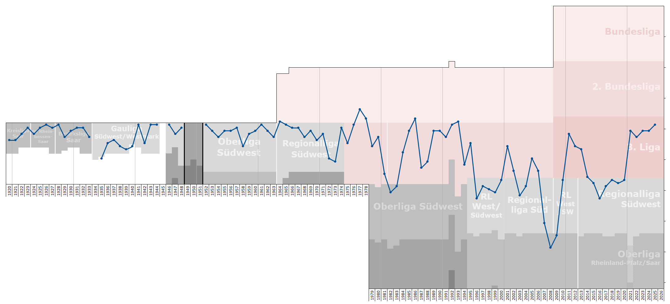 Chart of end-season table positions of FC Saarbrucken in the football league system of Germany. Data source: RSSSF, wikipedia, f-archiv.de, fussball.de